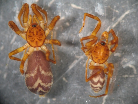 female and male of Cubanops alayoni (Caponiidae: Araneae). SPIDERS